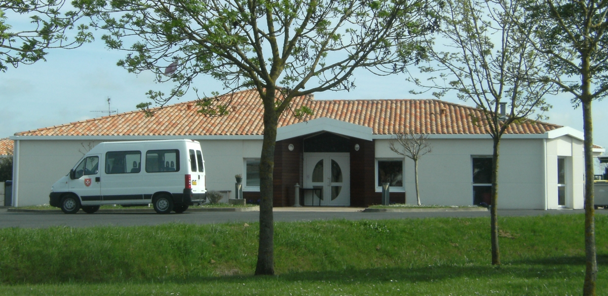 Centre des Autistes de l'Ordre de Malte à Rochefort